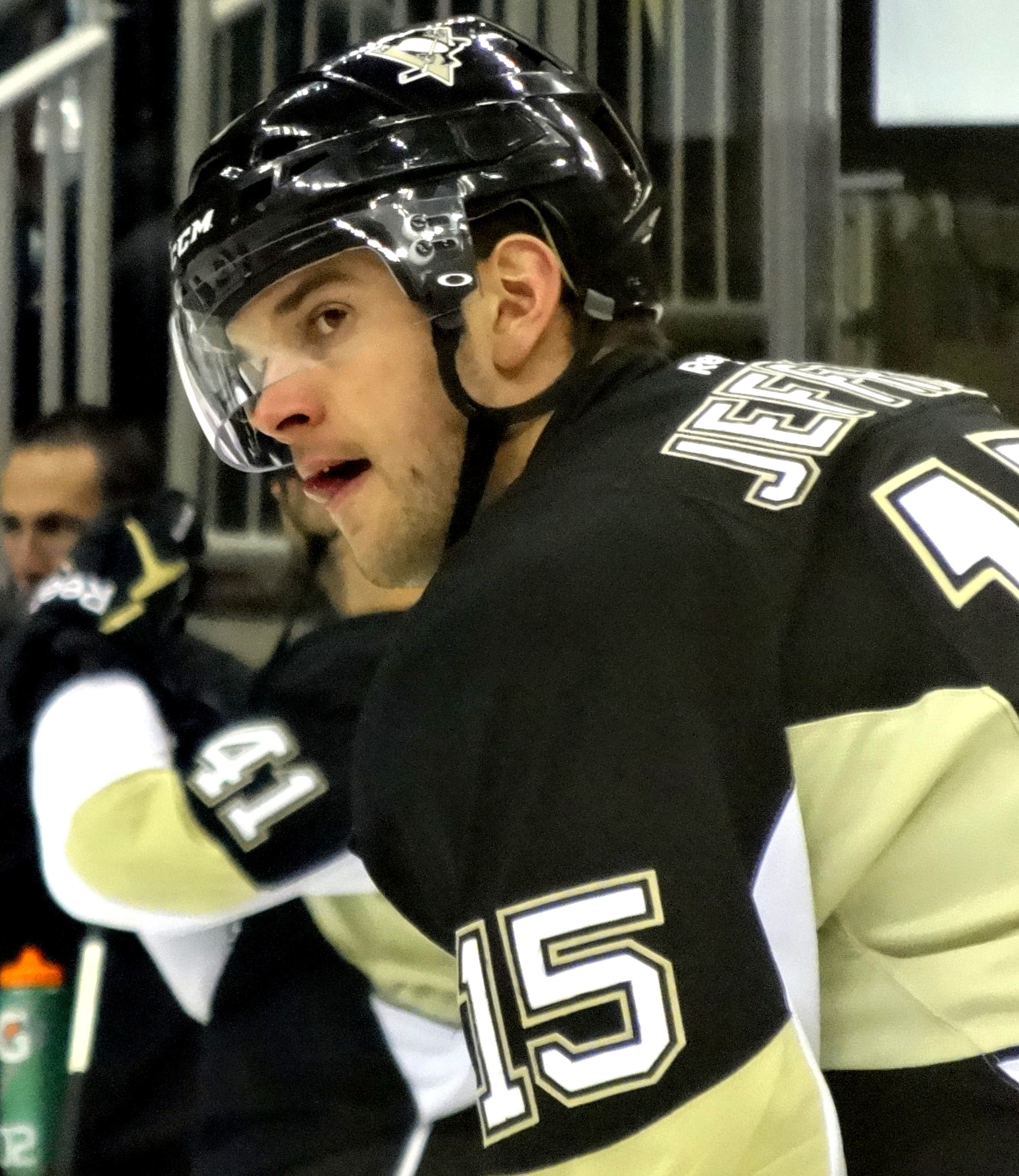 Pittsburgh Penguins center Dustin Jeffrey warms up before a game against the Washington Capitals, March 19, 2013 at Consol Energy Center in Pittsburgh, PA. Photo by PensAreYourDaddy.